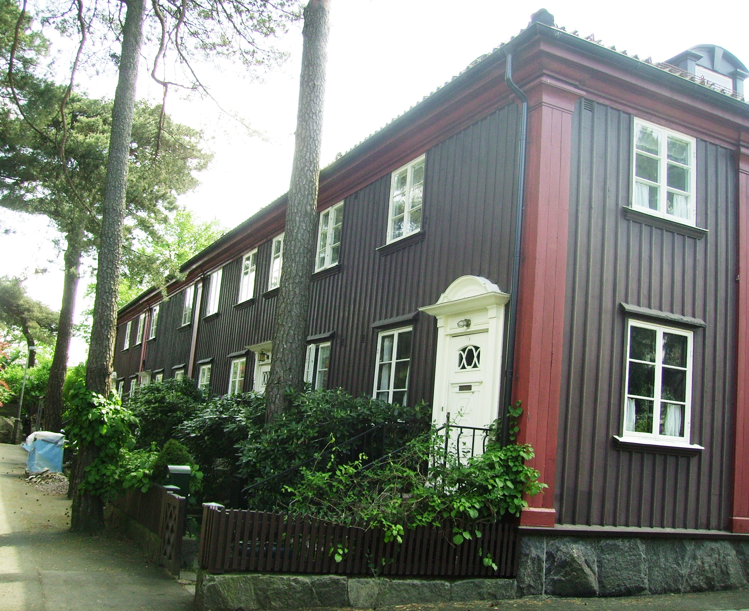 Picture of buildings in the complex of Landala egnahem in Göteborg.